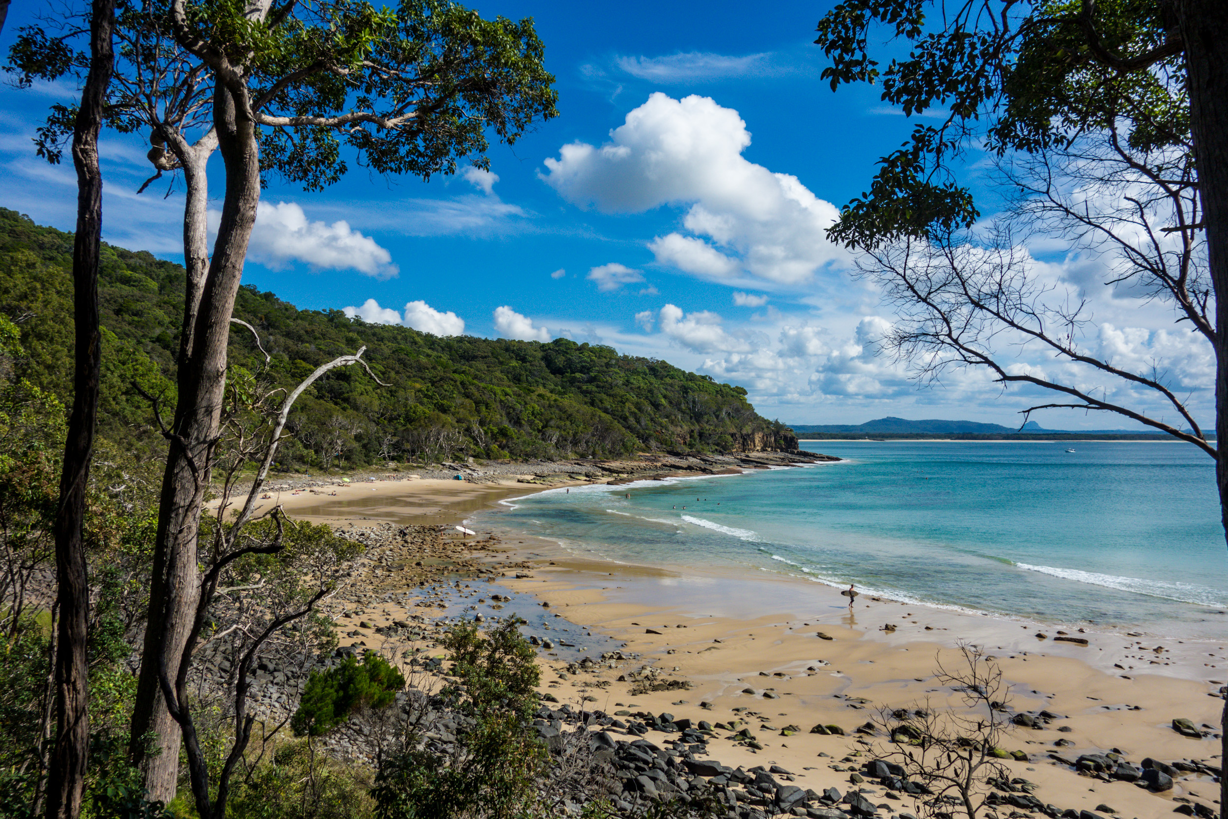 Australia - Part 1